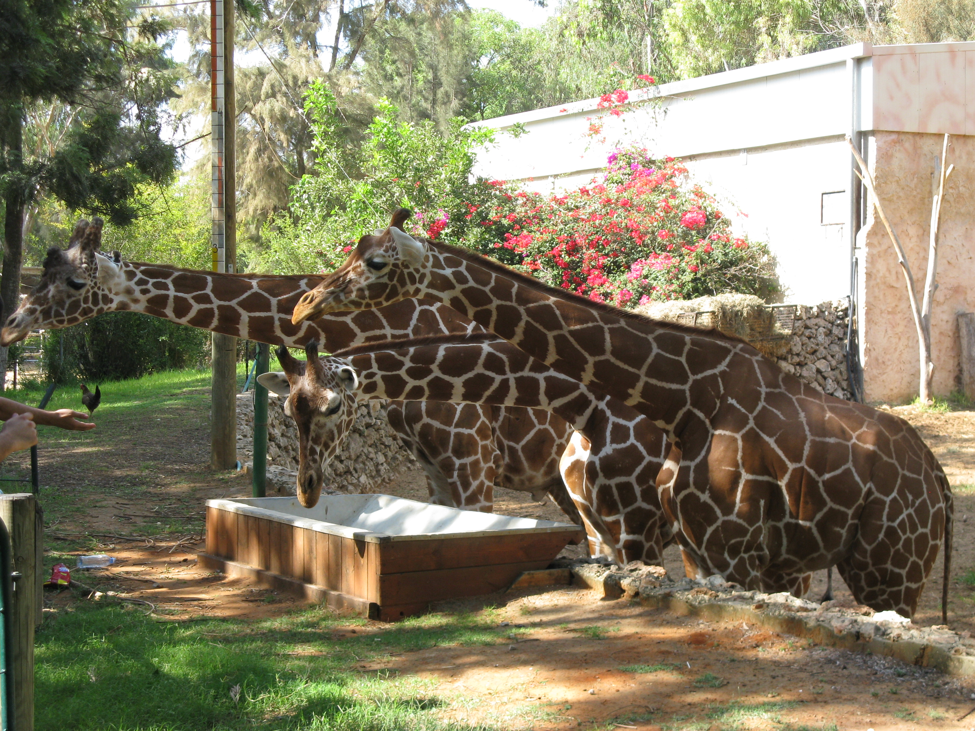 Giraffas in Ramat-Gan Safari